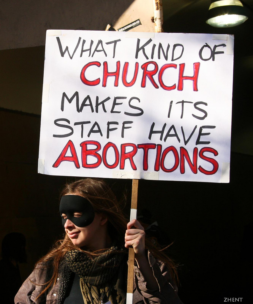 Protester against Scientology, holding sign which reads: "What kind of Church makes its staff have Abortions".